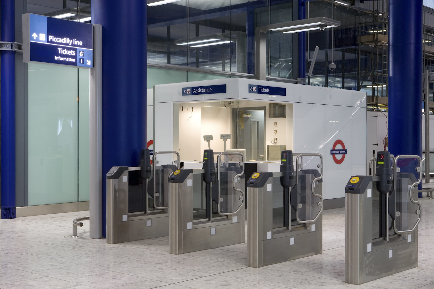 Heathrow Terminal 5 - Piccadilly Line